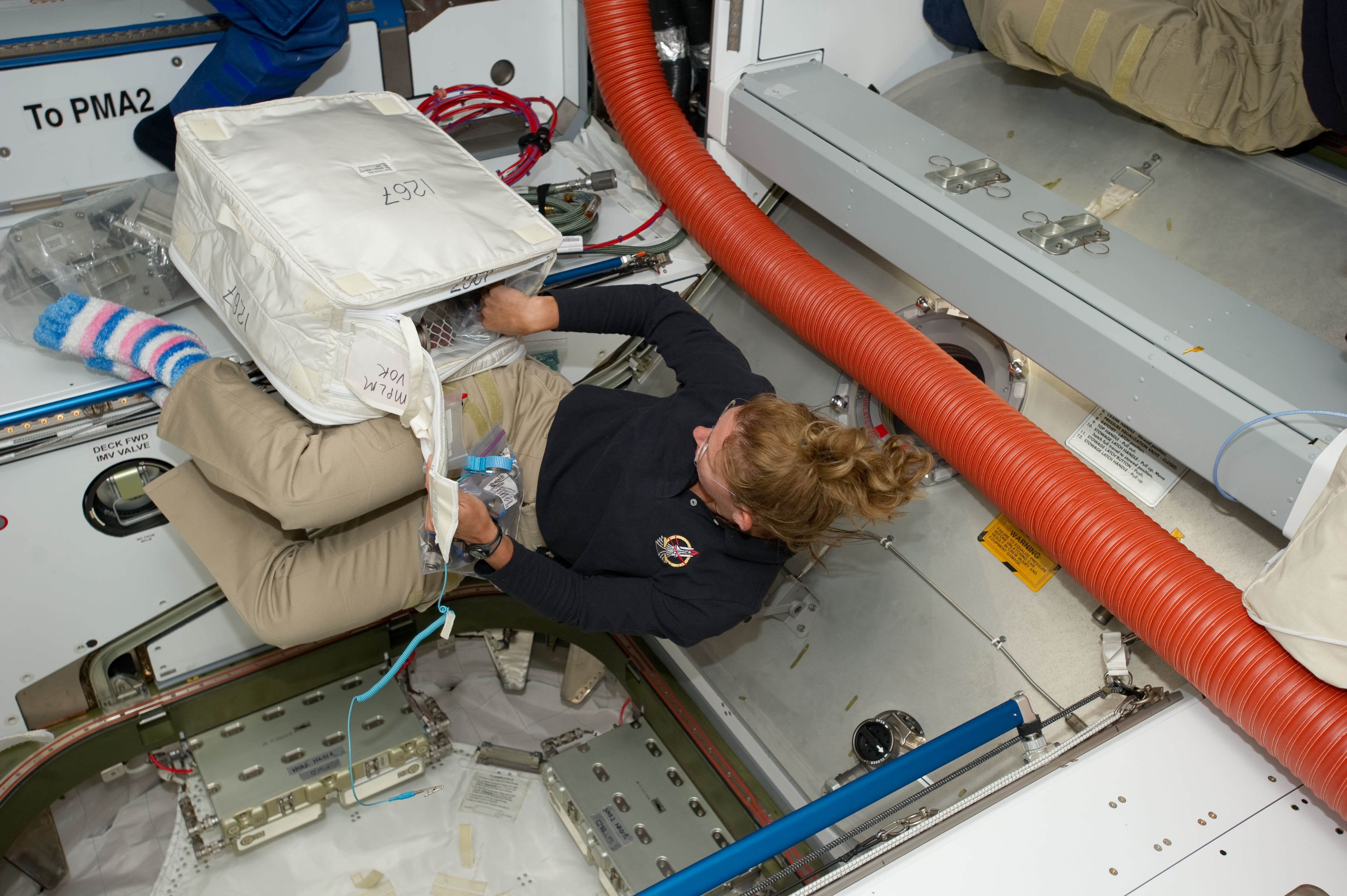 Toting a cargo transfer bag filled with supplies that was carried aboard Raffaello in Atlantis' cargo bay, NASA astronaut Sandy Magnus participates in a very busy move operation on the fourth day in space for the STS-135 crew. She is in Node 2 or Harmony, near the PMA-2 passageway, on the International Space Station. She is sporting the striped socks that she rediscovered on the station which had remained there since her long duration stay on the orbital outpost a few years ago.